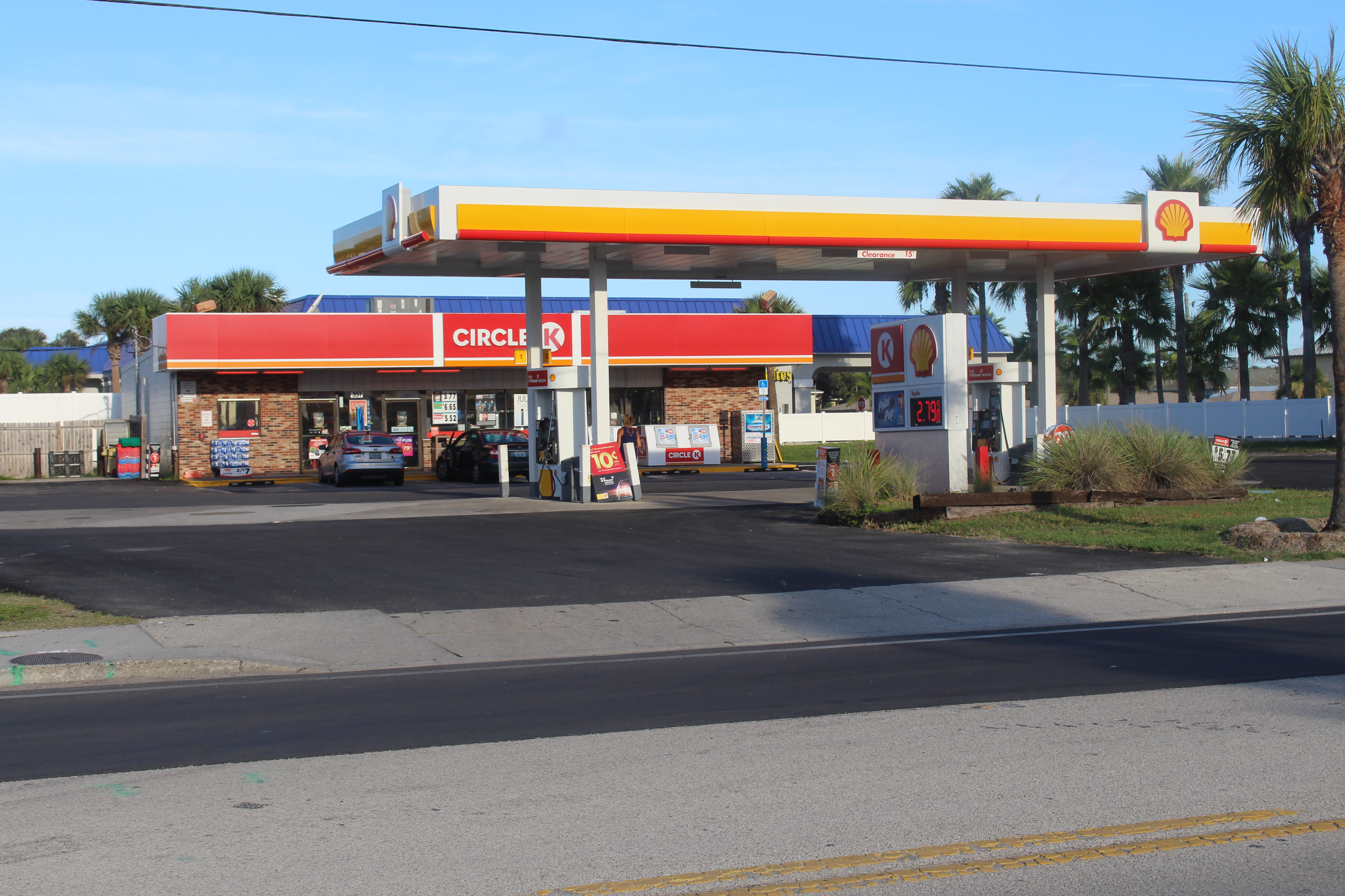 Circle K, Shell gas station, A1A Blvd, St. Augustine Beach, St. Johns County, Florida